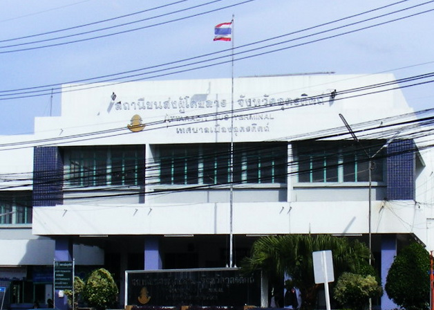 uttaradit transport station, Mueang Uttaradit, Uttaradit Province, Thailand.